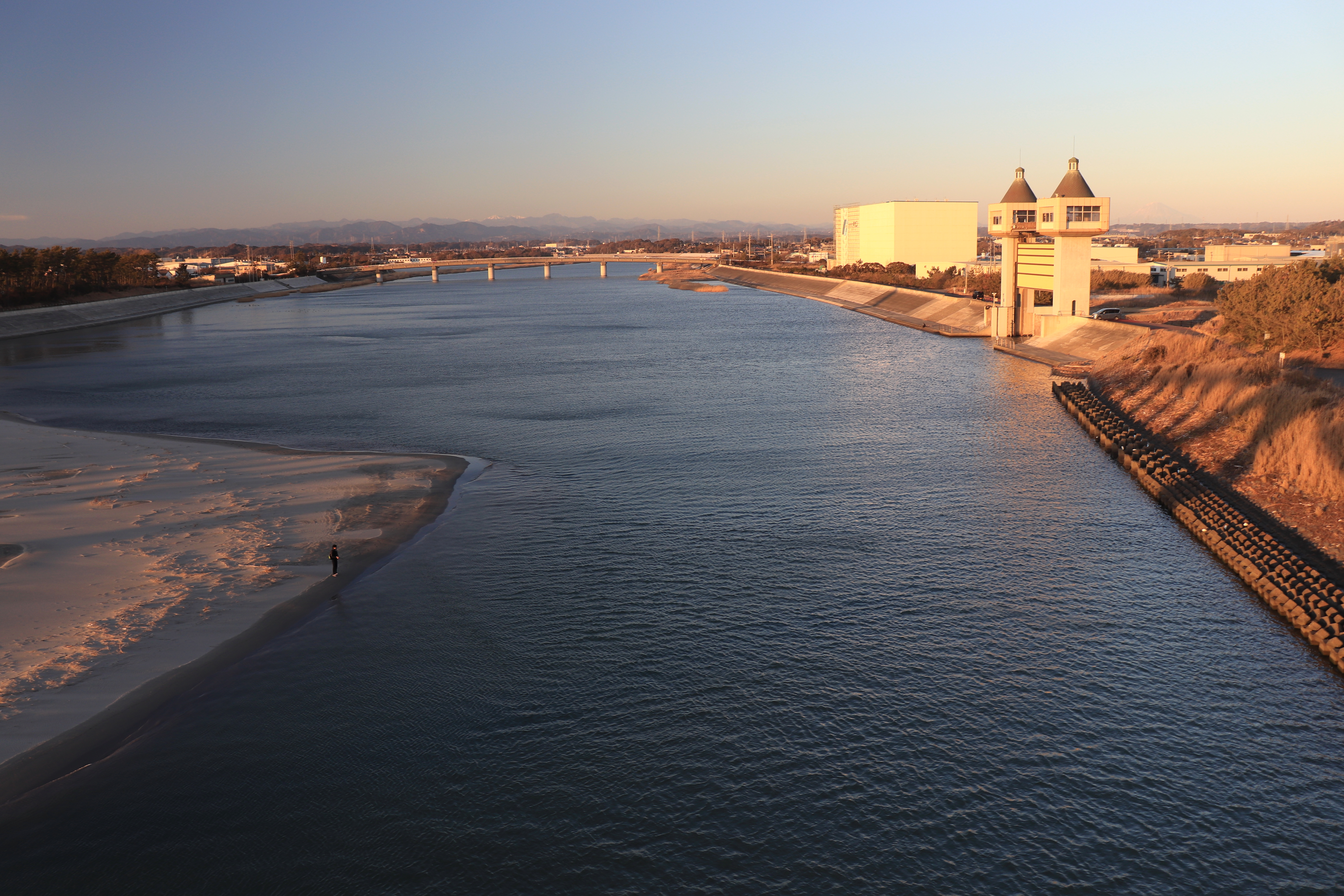 Kiku River seen from Shiosai Bridge in Kakegawa, Shizuoka Prefectre, Japan. Canon EOS Kiss X9